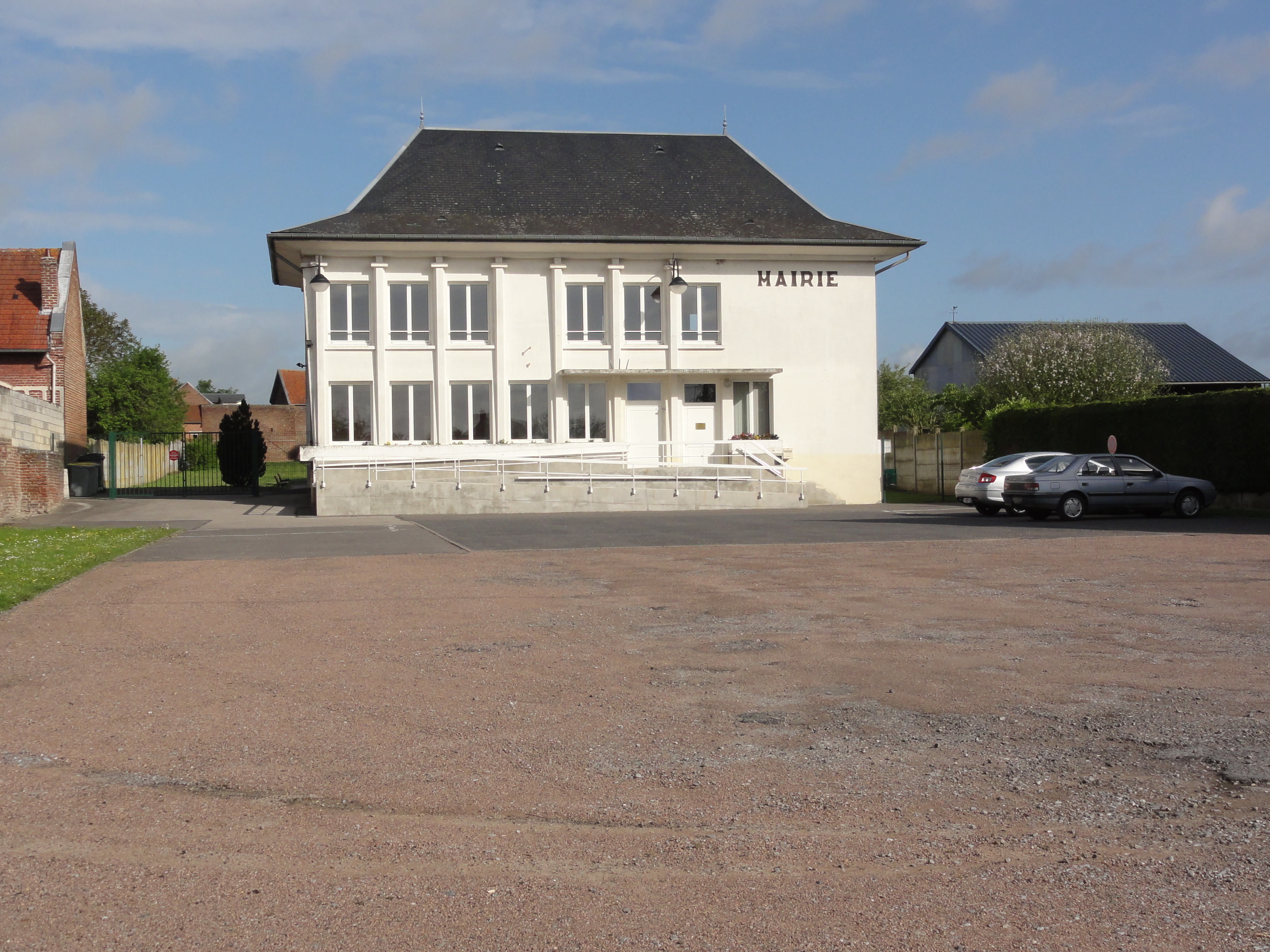 Travecy (Aisne) mairie